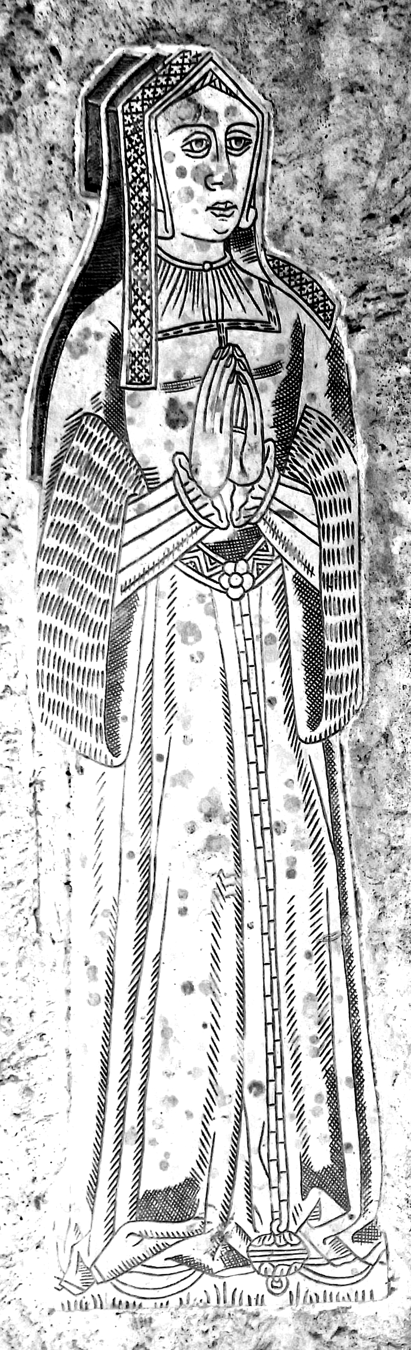 Photo of monumental brass of Honor Grenville (d.1566) on chest-tomb of her first husband Sir John Bassett (1462-1529) of Umberleigh. Atherington Church, Devon